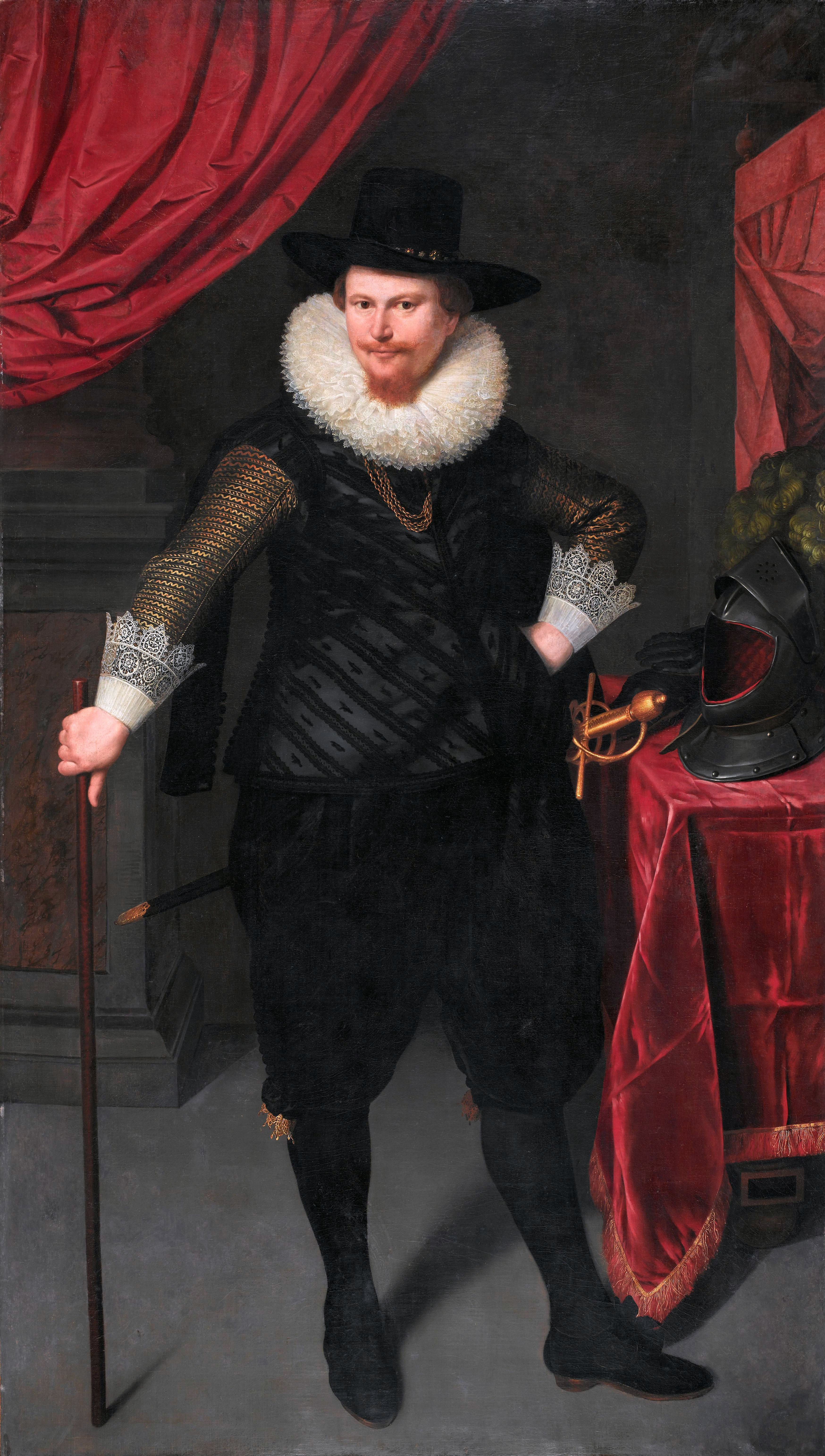 Portrait of Laurens Reael, governor-general of the Dutch East Indies. At full length. Pendant of a portrait of his wife, Suzanna Moor (1608-1657).